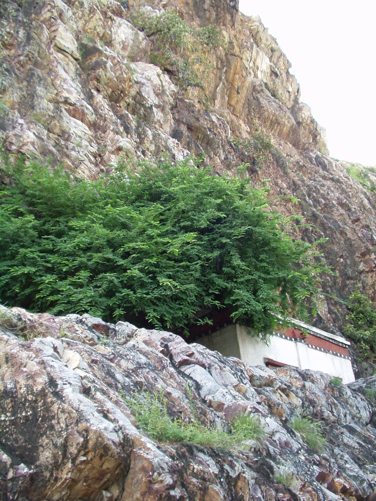 Entrance of the cave where Gautama Buddha was used to meditate before illumination, Mt. Pragbodhi, few km from Bodhgaya, Bihar, India